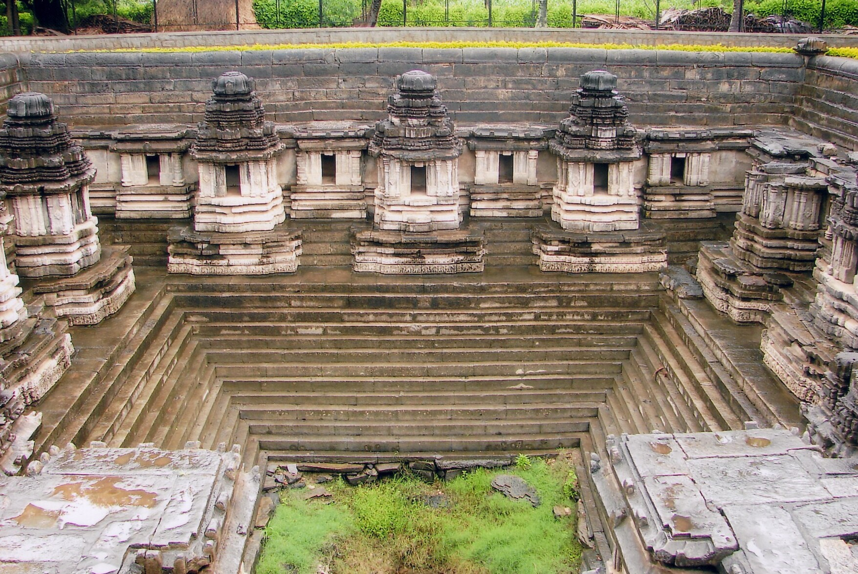 This photograph of a temple tank built by the Hoysala Empire kings was taken by self (Dinesh Kannambadi) at Hulikere, Hassan district, Karnataka state, India